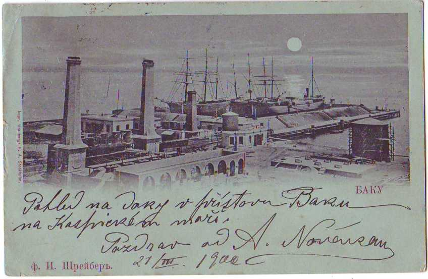 Old Baku